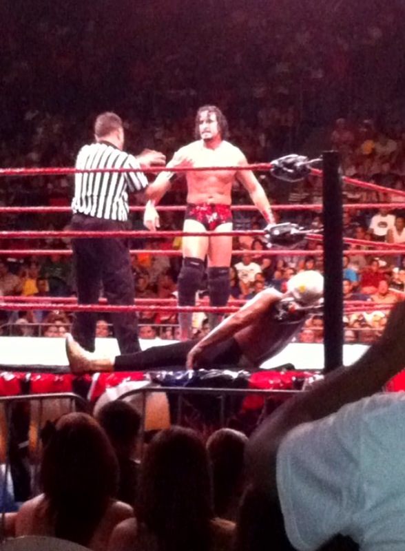 Gilbert (left) wrestling José Huertas González (right) at the World Wrestling Council's Aniversario 2011 event.